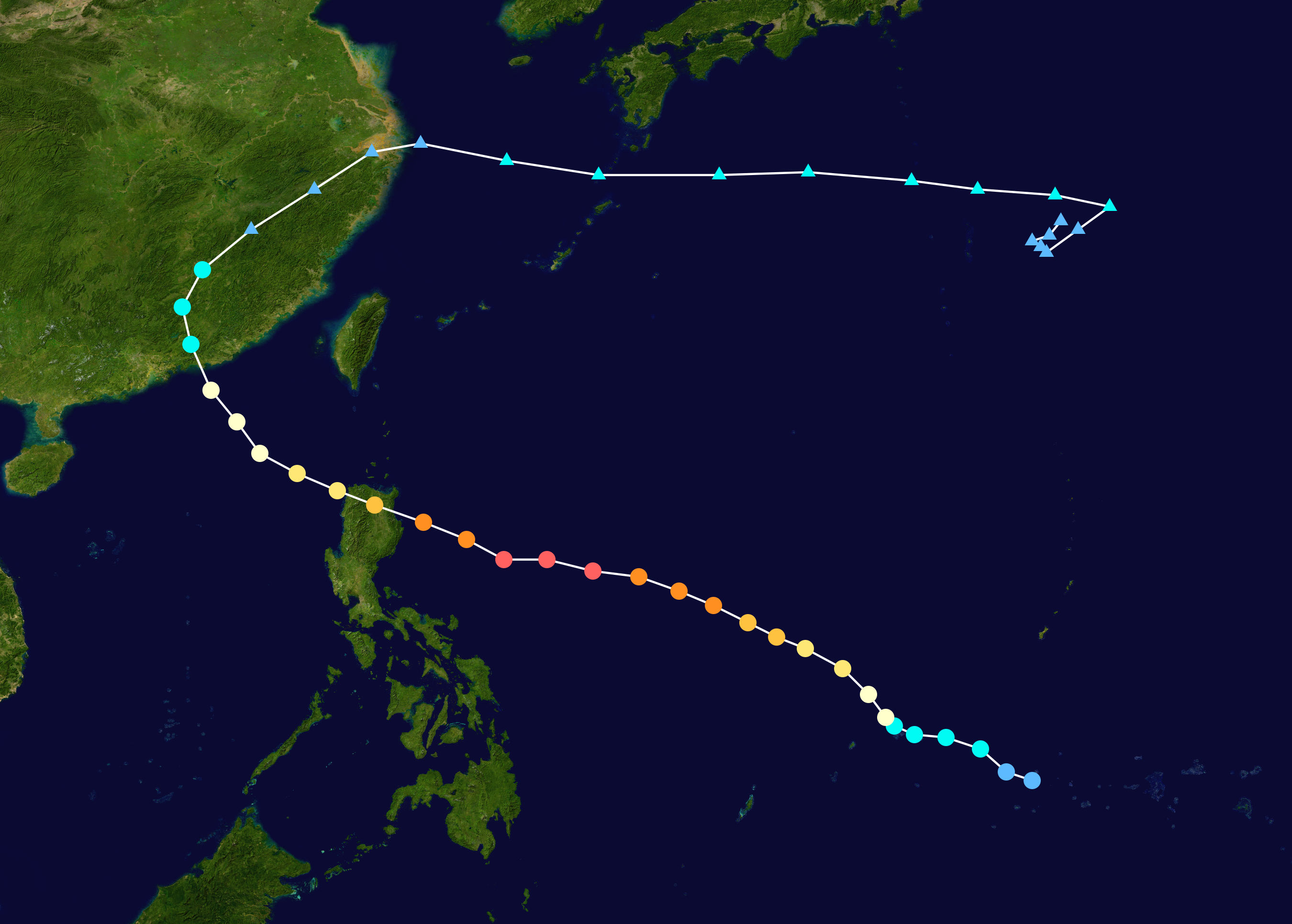 Track map of Typhoon Haima of the 2016 Pacific typhoon season. The points show the location of the storm at 6-hour intervals. The colour represents the storm's maximum sustained wind speeds as classified in the Saffir–Simpson scale (see below), and the shape of the data points represent the nature of the storm, according to the legend below. Saffir–Simpson scale Tropical depression≤38 mph≤62 km/h Category 3111–129 mph178–208 km/h Tropical storm39–73 mph63–118 km/h Category 4130–156 mph209–251 km/h Category 174–95 mph119–153 km/h Category 5≥157 mph≥252 km/h Category 296–110 mph154–177 km/h Unknown Storm type Tropical cyclone Subtropical cyclone Extratropical cyclone / Remnant low / Tropical disturbance / Monsoon depression